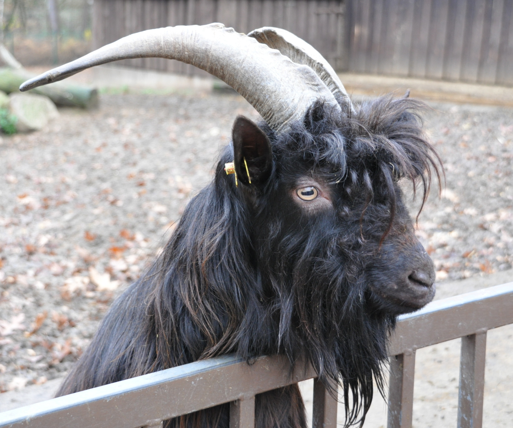 Valais Blackneck (Capra aegagrus hircus) in the Lüneburg Heath wildlife park, Germany.